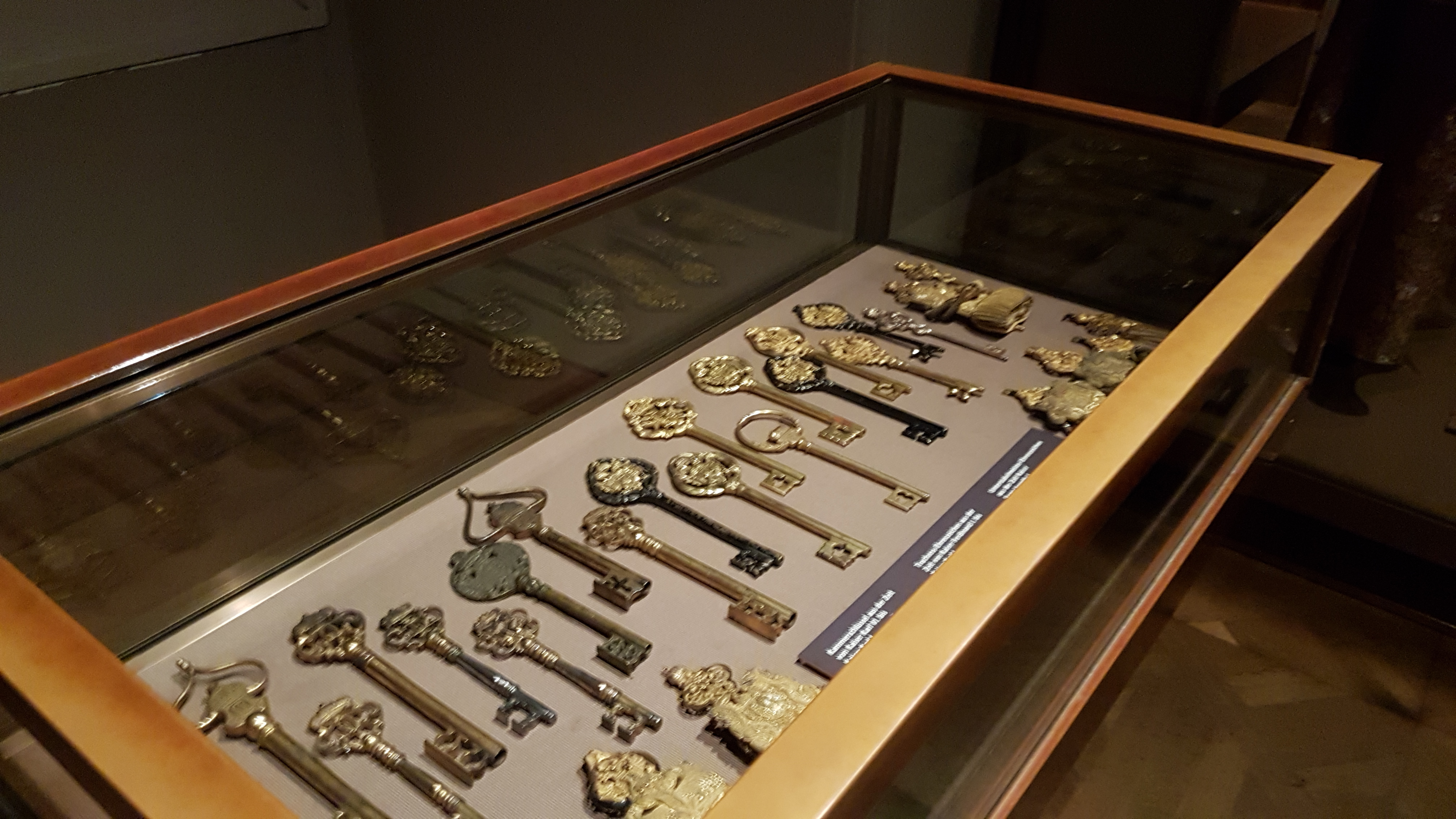 Showcase with ceremonial keys in the Imperial Treasury in Vienna. They were used during Habsburgs monarchy time